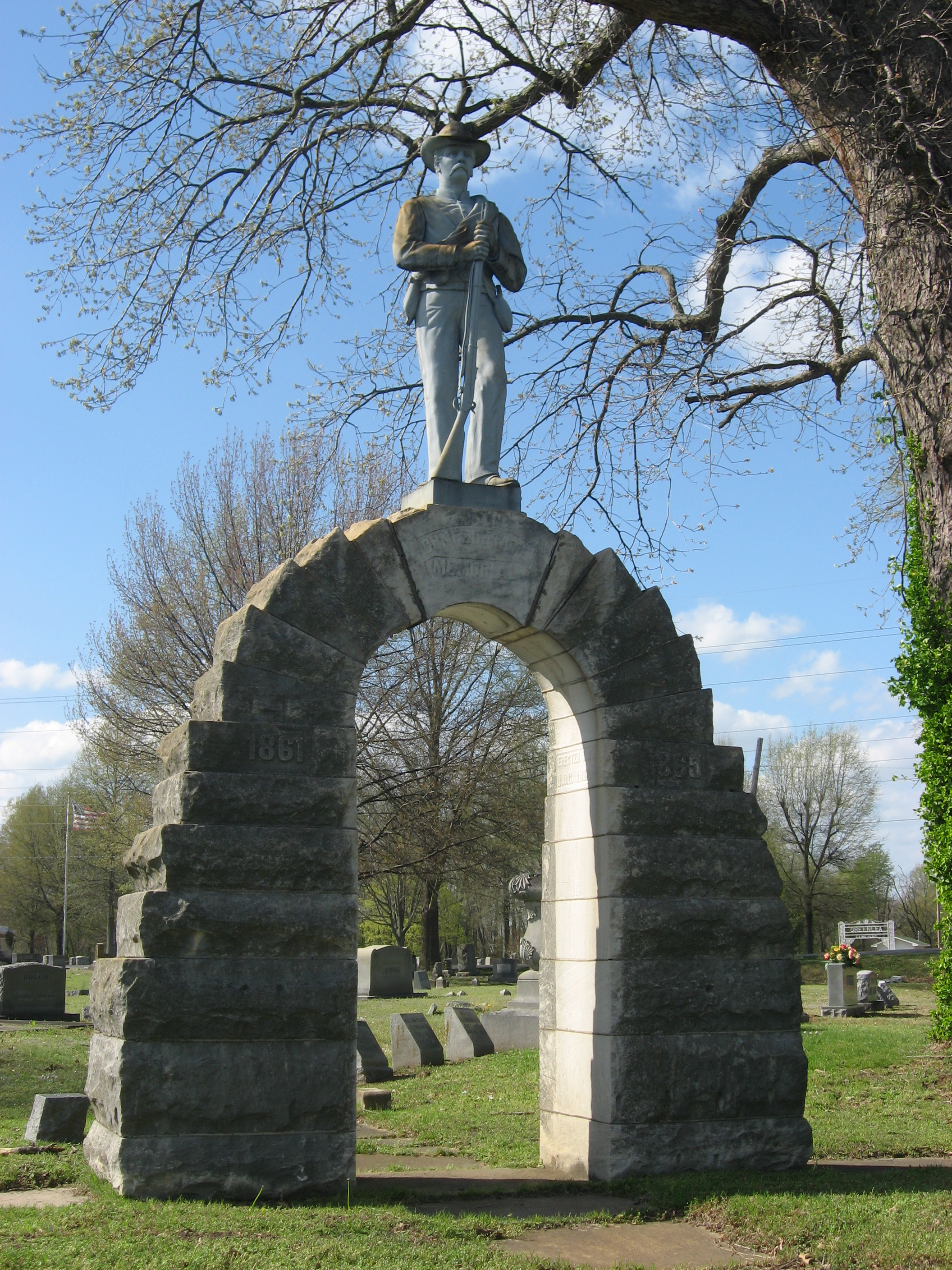 Front of the Confederate Memorial in Fulton, located in Fairview Cemetery in Fulton, Kentucky, United States. Built in 1902, it is listed on the National Register of Historic Places.